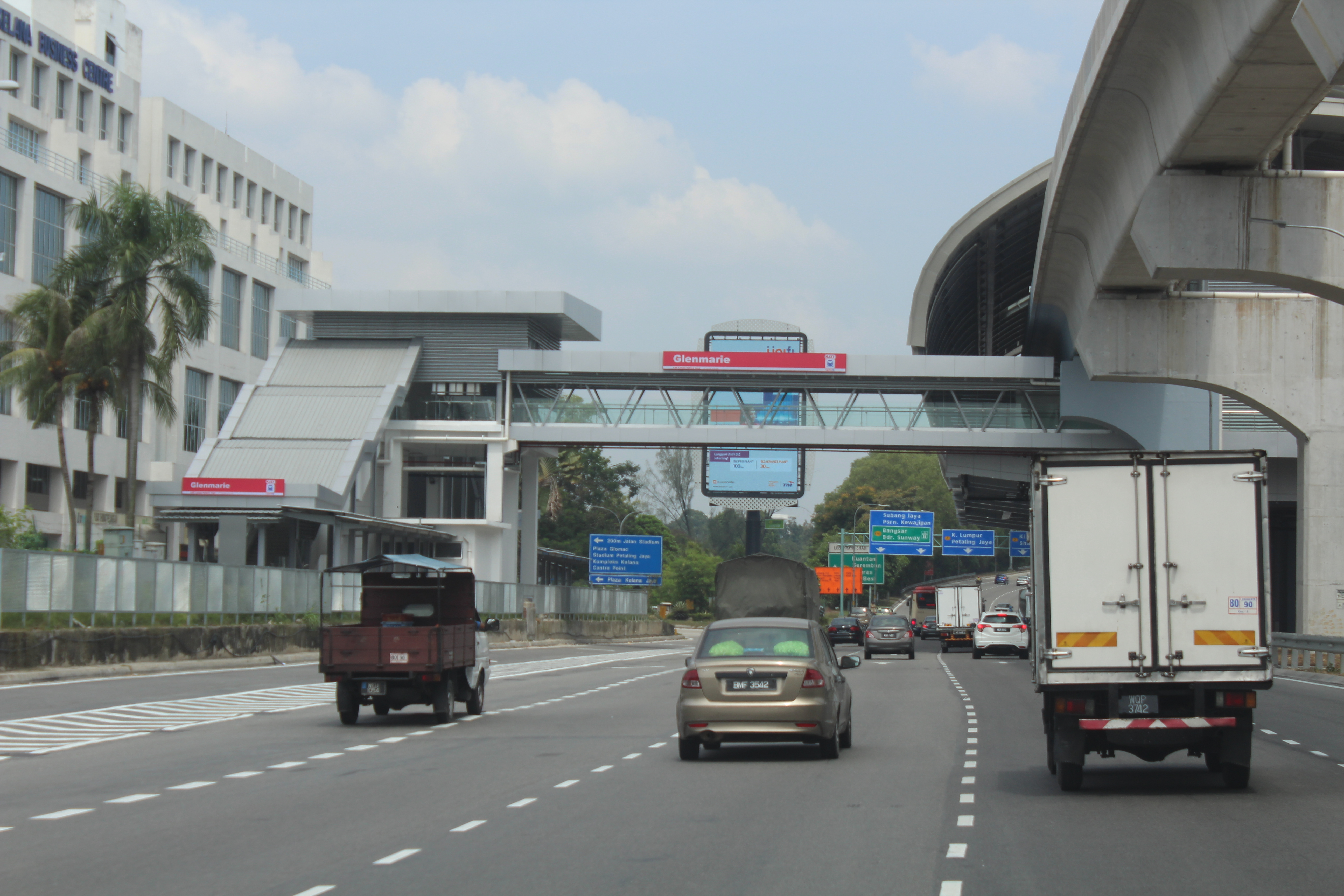 Glenmarie LRT Station with Kelana Business Centre on the left